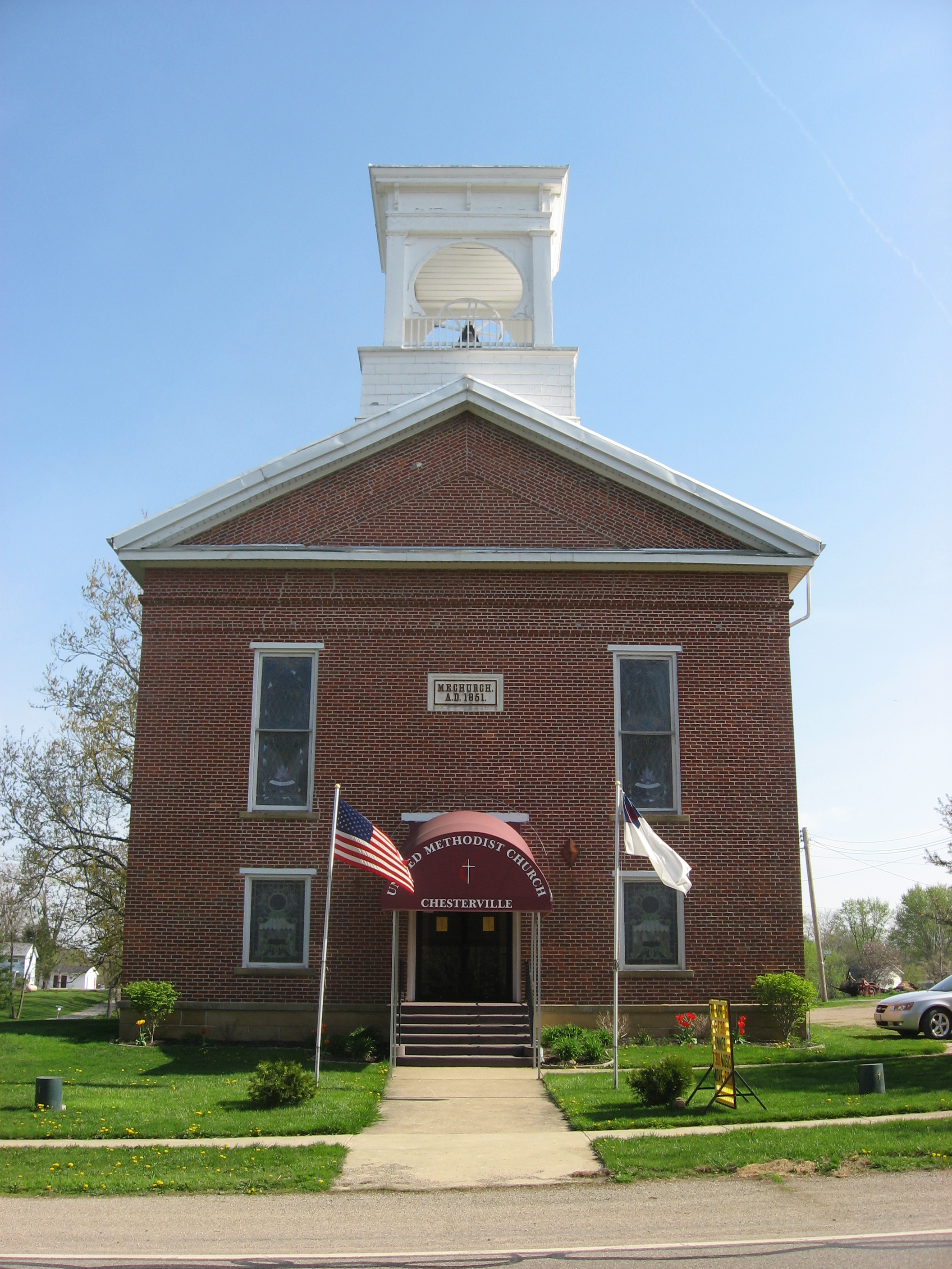 Front of the Chesterville Methodist Church, located at 115 E. Sandusky Street (State Route 95) in Chesterville, Ohio, United States. Built in 1851, it is listed on the National Register of Historic Places.